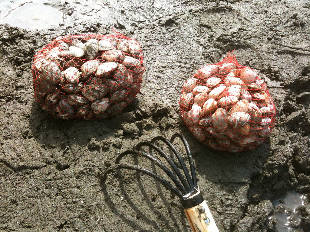 Clam digging